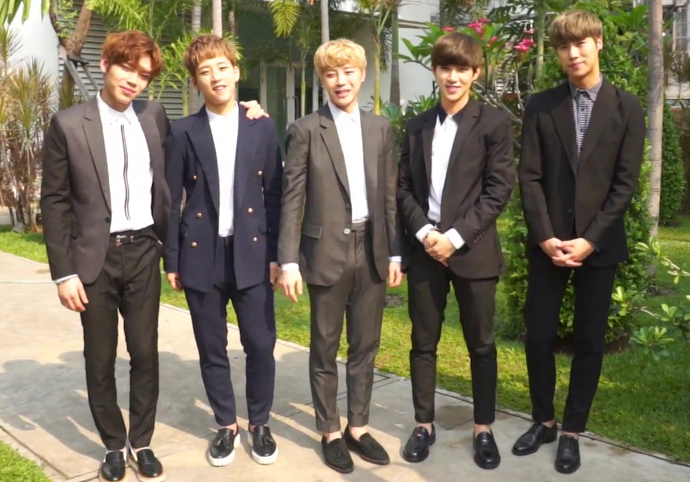 (Acian(에이션)) Opening of Real Acian TV